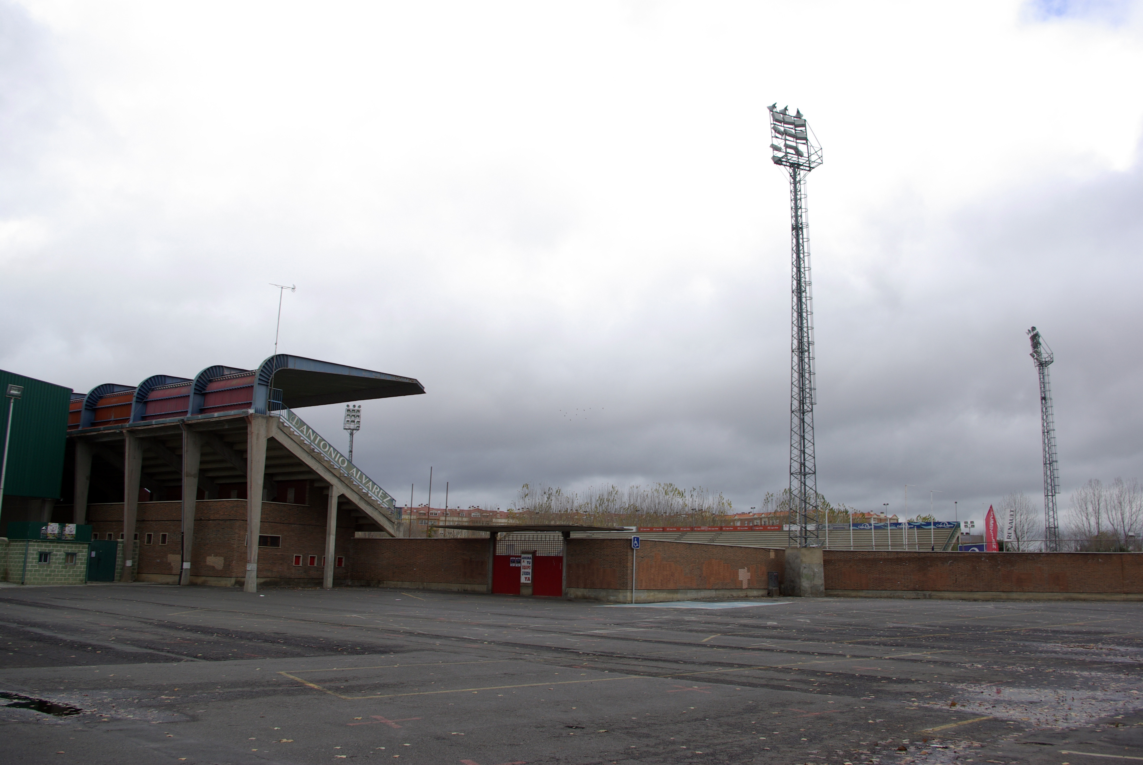 Adolfo Suarez football pitch in Ávila (Ávila, Spain).